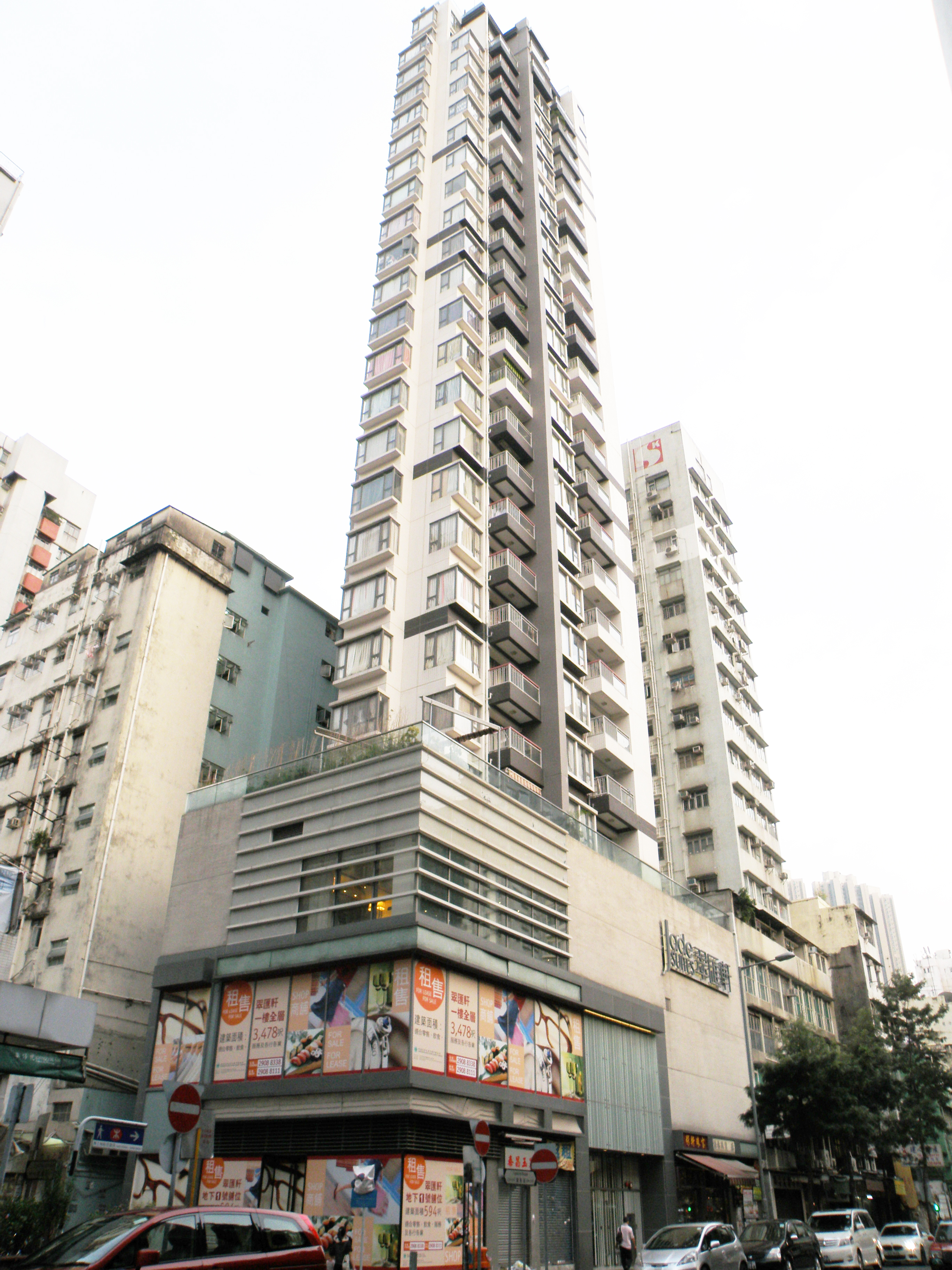 Jade Suites in Jordan, Hong Kong.